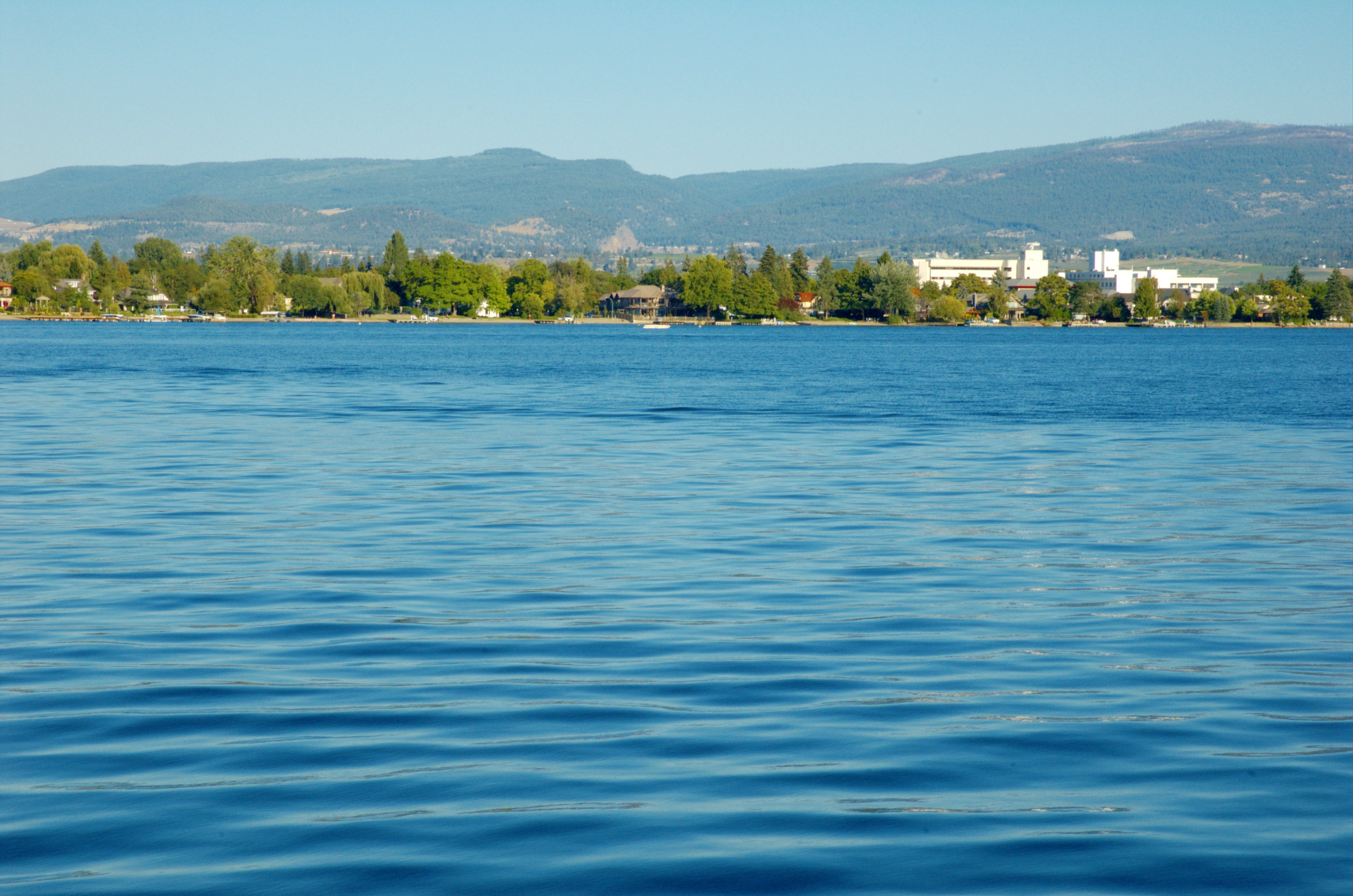 A majestic view of Okanagan Lake near Kelowna in British Columbia, Canada, during the summer of 2005.